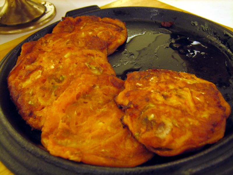 Kimchijeon, a Korean pancake made with wheat flour, kimchi and vegetables.